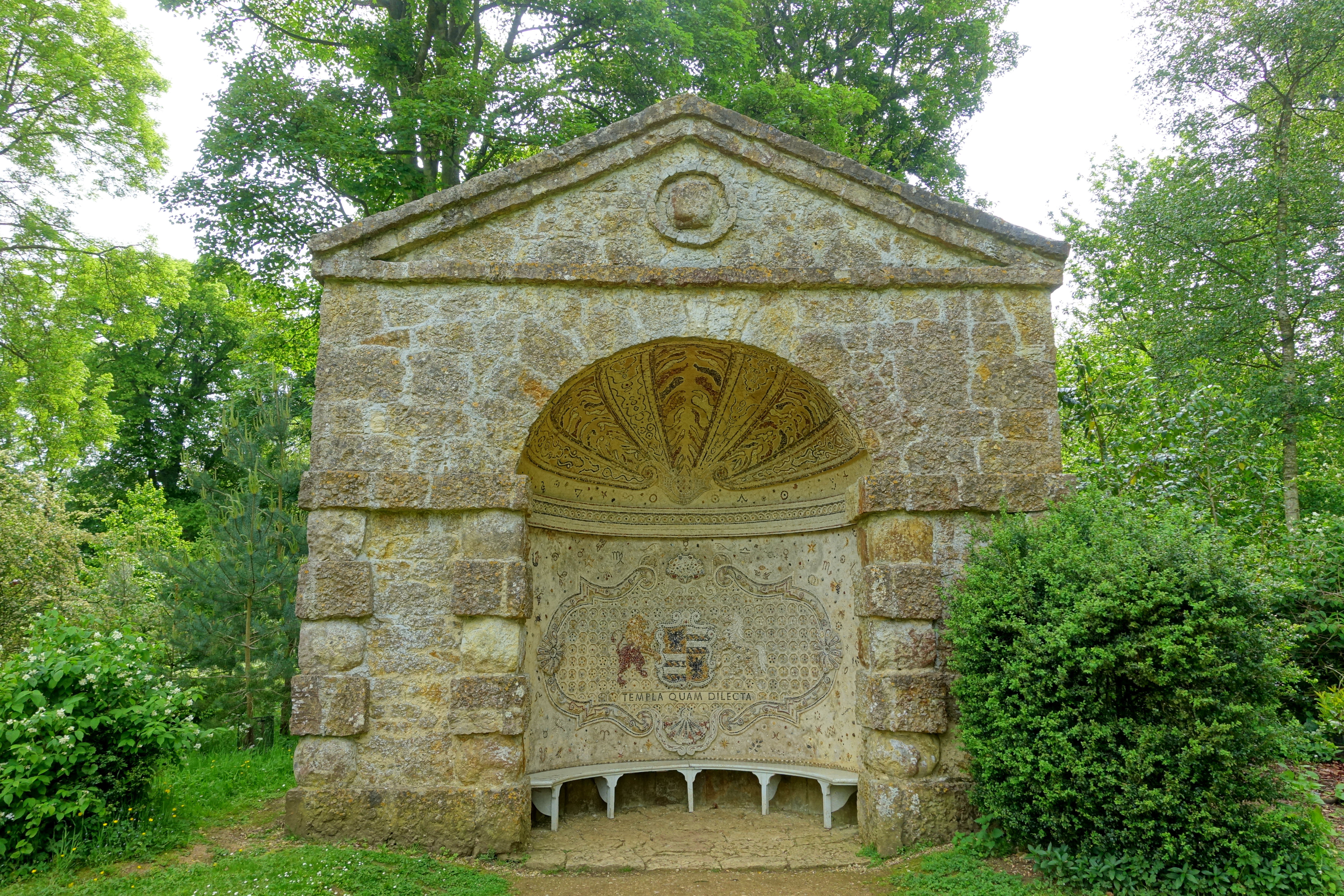 Pebble Alcove, Stowe - Buckinghamshire, England.